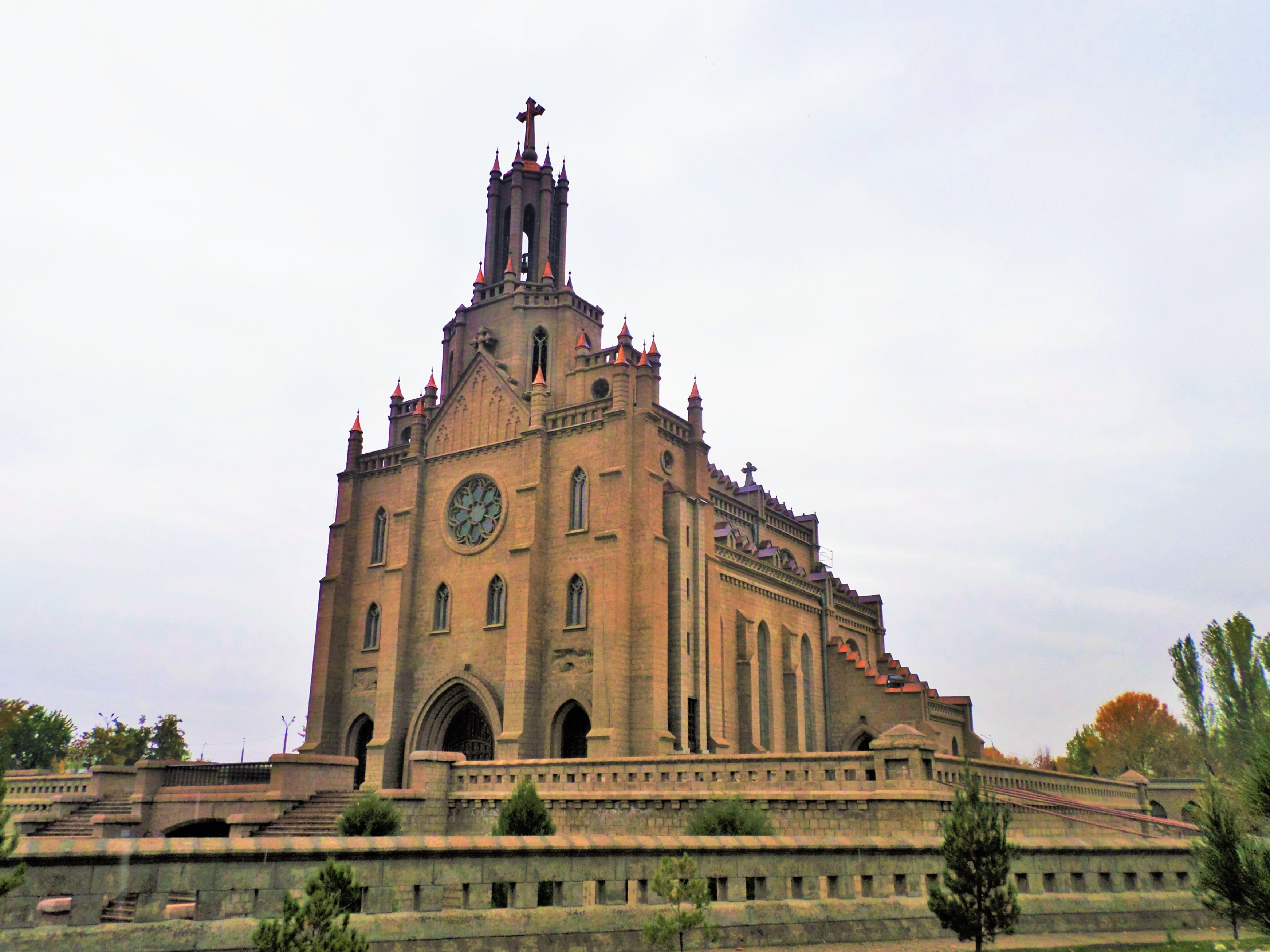 Sacred Heart Cathedral, Tashkent